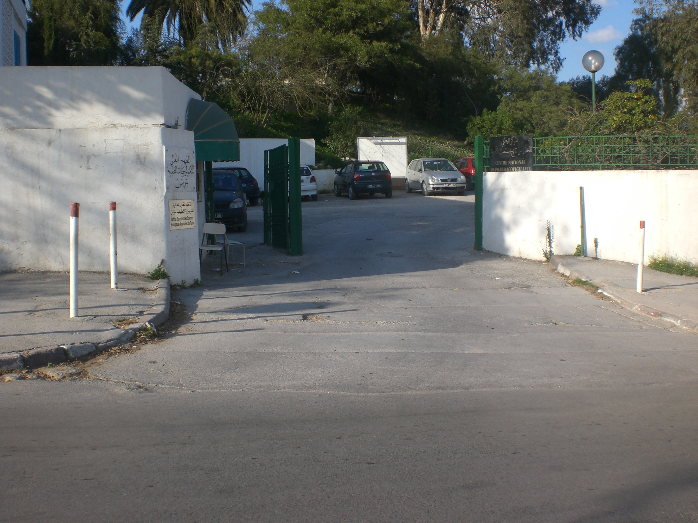 High Institute of Biologic Sciences in Tunis